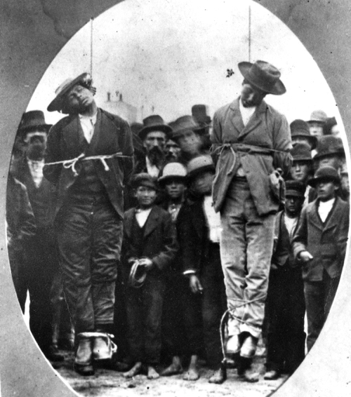 In 1877, Francisco Arias and José Chamales were lynched in Santa Cruz, California. Their killers were never named in court, and it was speculated that members of the jury had been in the lynch mob. The photo was taken by John Elijah Davis Baldwin, a Santa Cruz photographer.